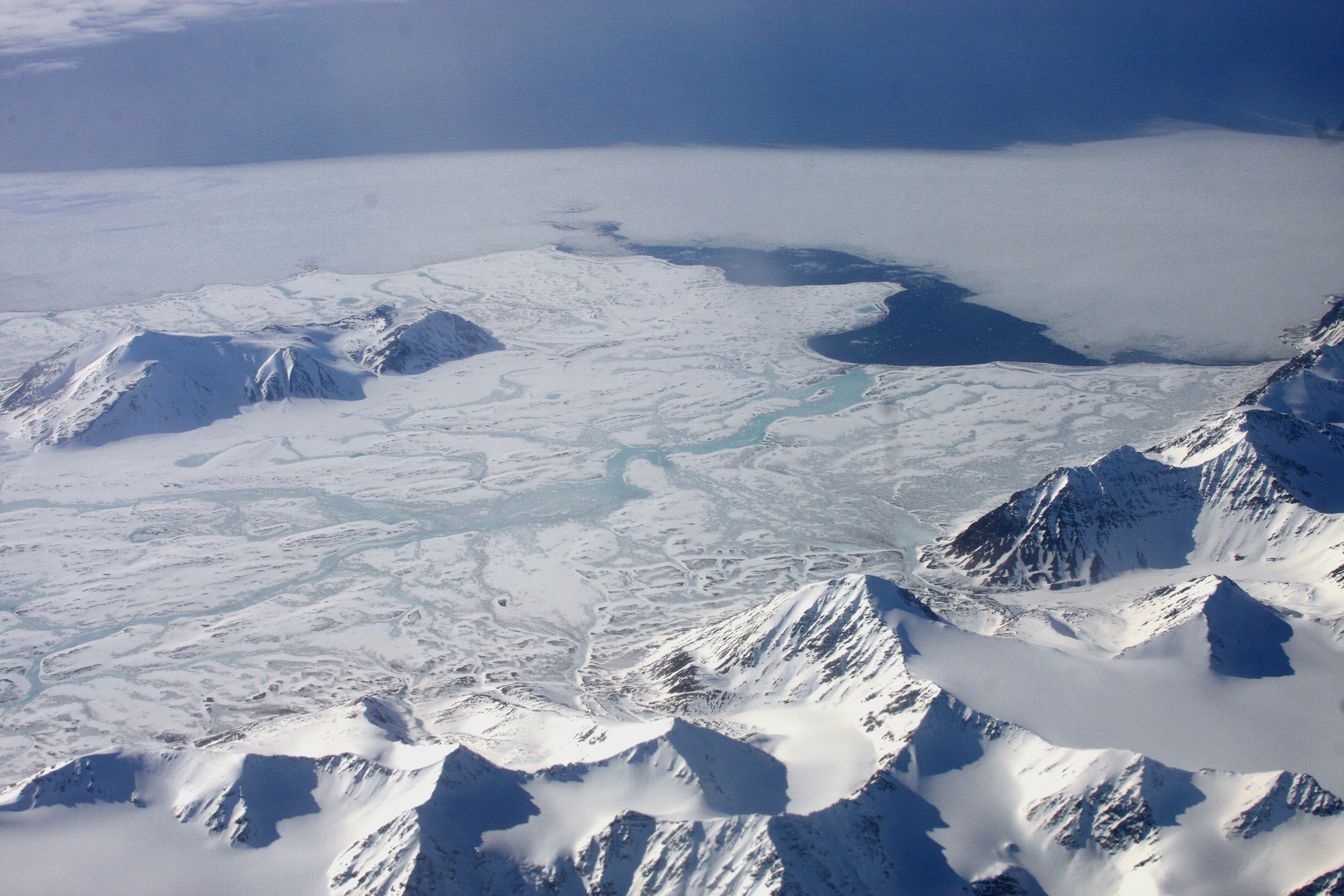 Dunderdalen (Dunder Valley), Wedel Jarlsberg Land, southwestern Spitsbergen. Seen from east towards west. Late April, 2011.